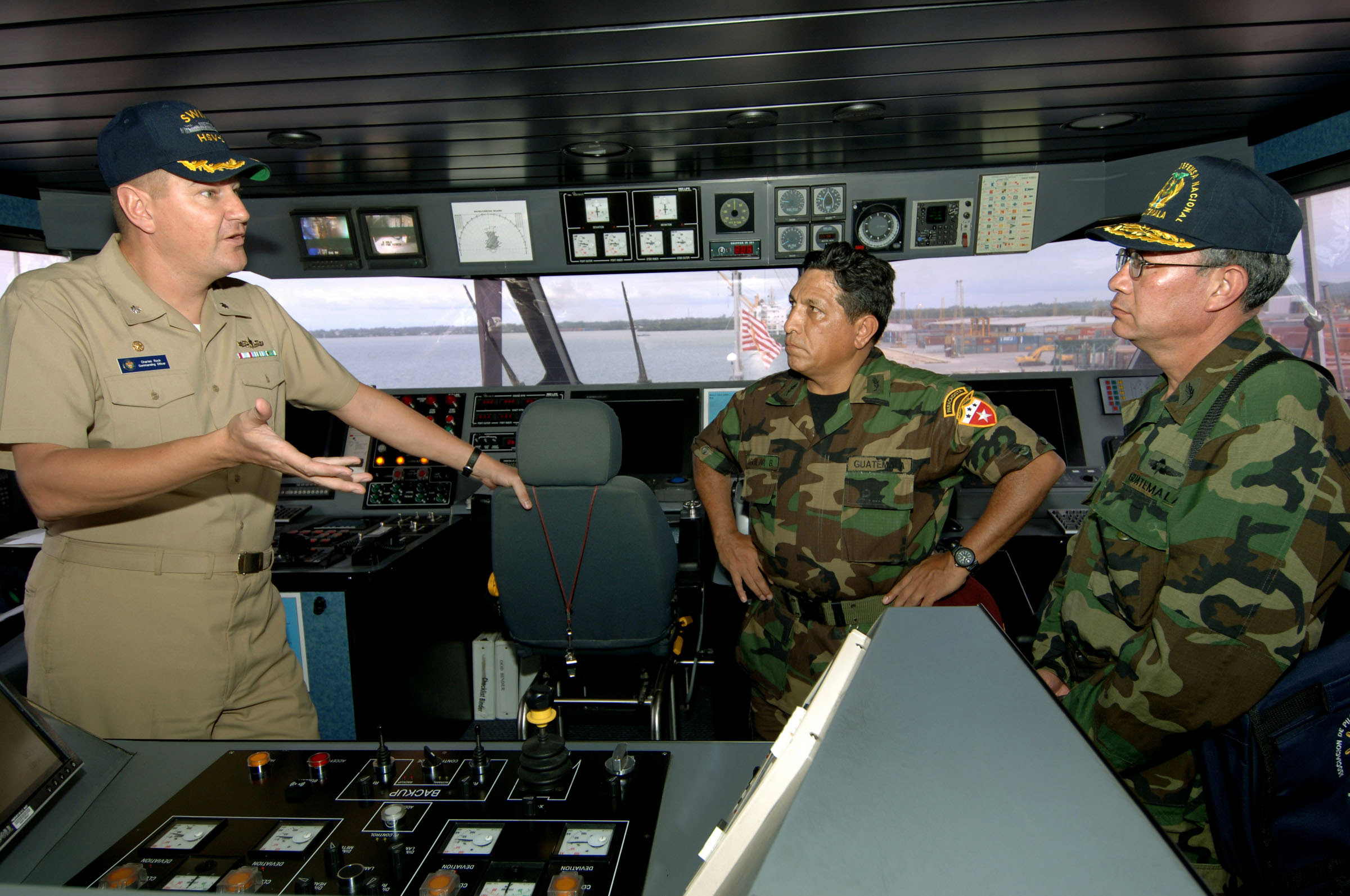 PUERTO BARRIOS, Guatemala (June 6, 2007) - Commander, Task Group 40.9, Capt. Douglas Wied, greets Vicealmirante Carlos Rene Alvarado Fernendez, Guatemalan Chief of Naval Operations, prior to a tour of High Speed Vessel (HSV) 2 Swift. Task Group 40.9 (TG 40.9), is deployed as part of the pilot Global Fleet Station (GFS) to the Caribbean basin and Central America. The mission is designed to validate the GFS concept for the Navy and support U.S. Southern Command objectives for its area of responsibility by enhancing cooperative partnerships with regional maritime services and improving operational readiness for the participating partner nations. U.S. Navy photo by Mass Communication Specialist 1st Class David Hoffman (RELEASED)